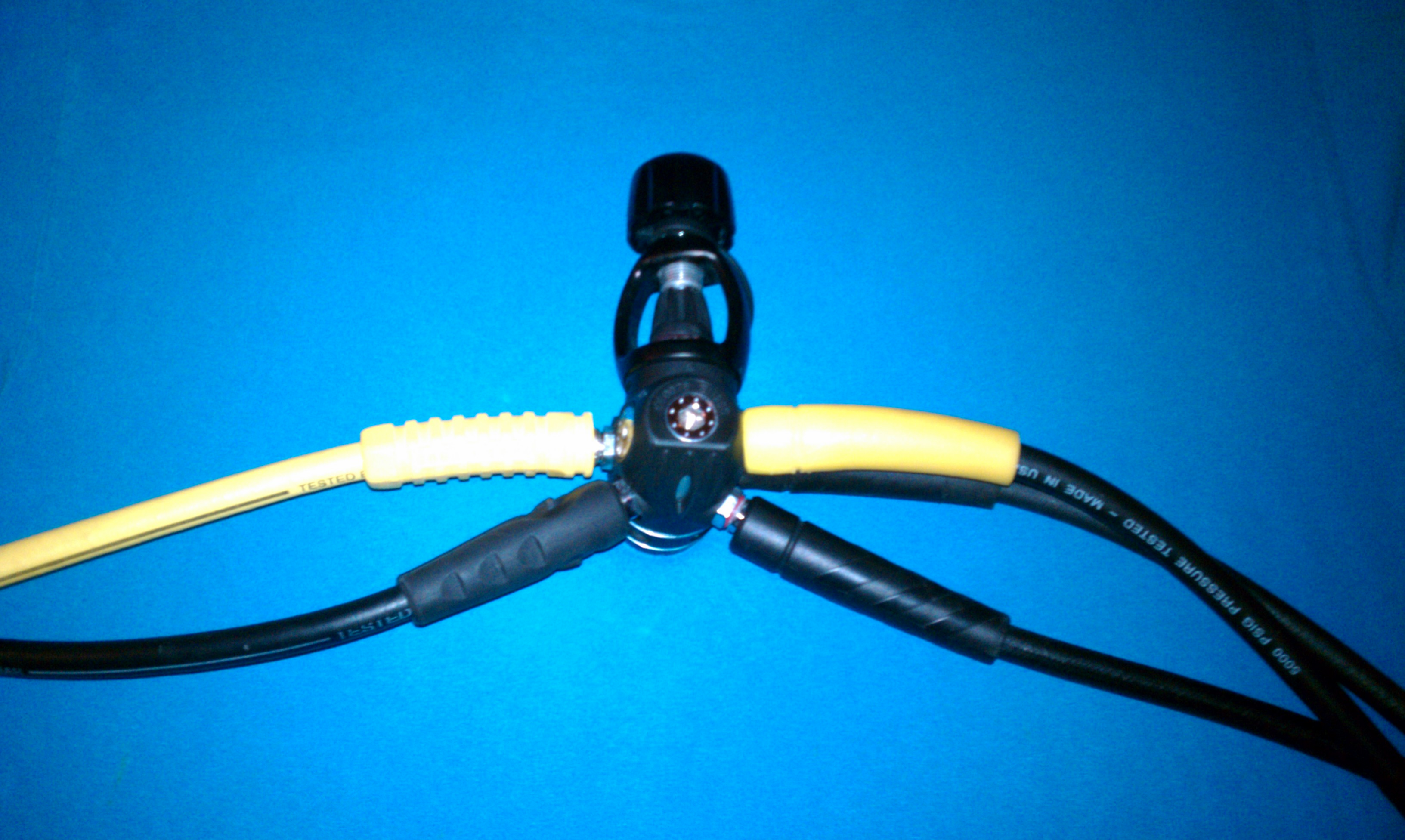 aqualung 1st stage